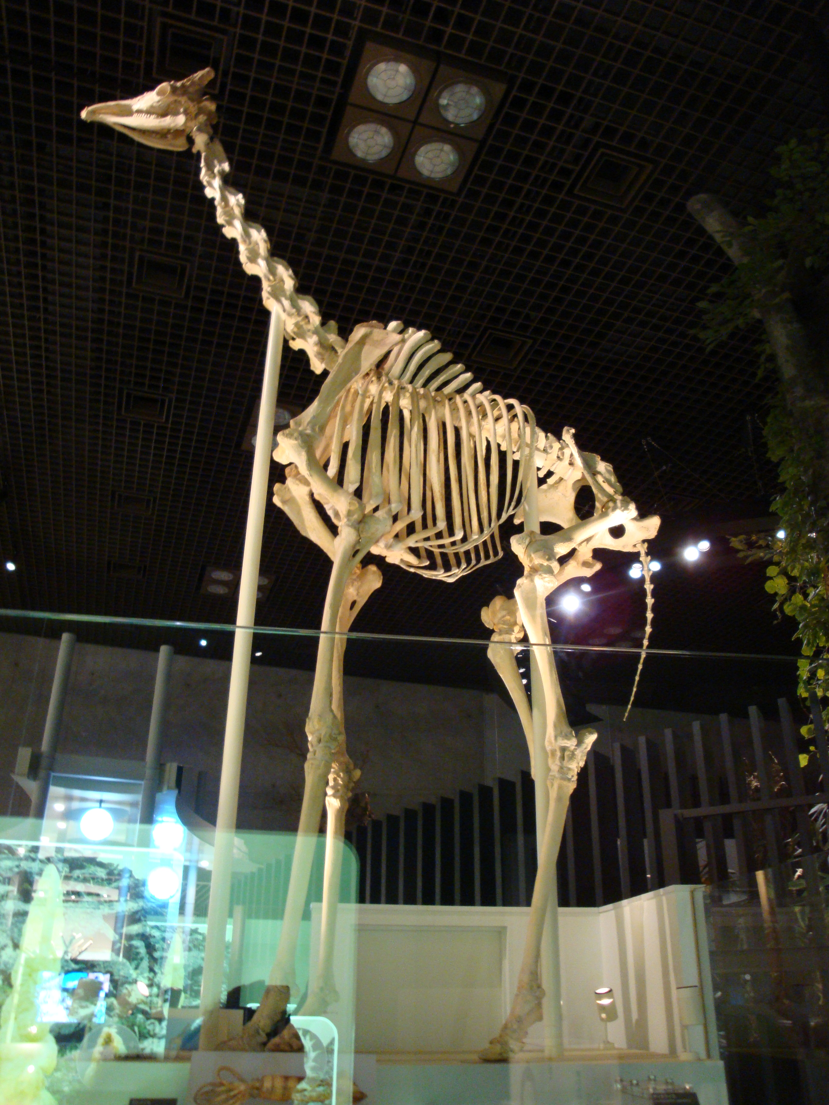 Global Gallery